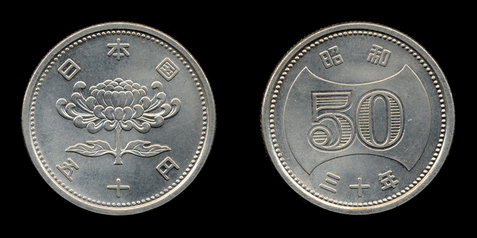 50yen-S30(current coin)